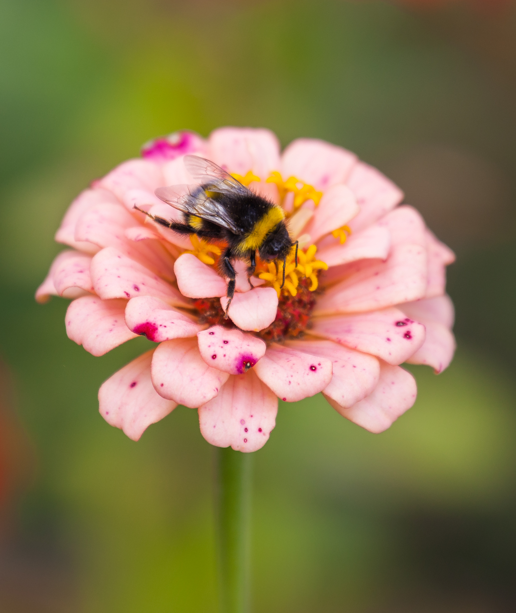 Bumblebee (Bombus lucorum) in a Zinnia elegans, Munich Botanical Garden, Germany